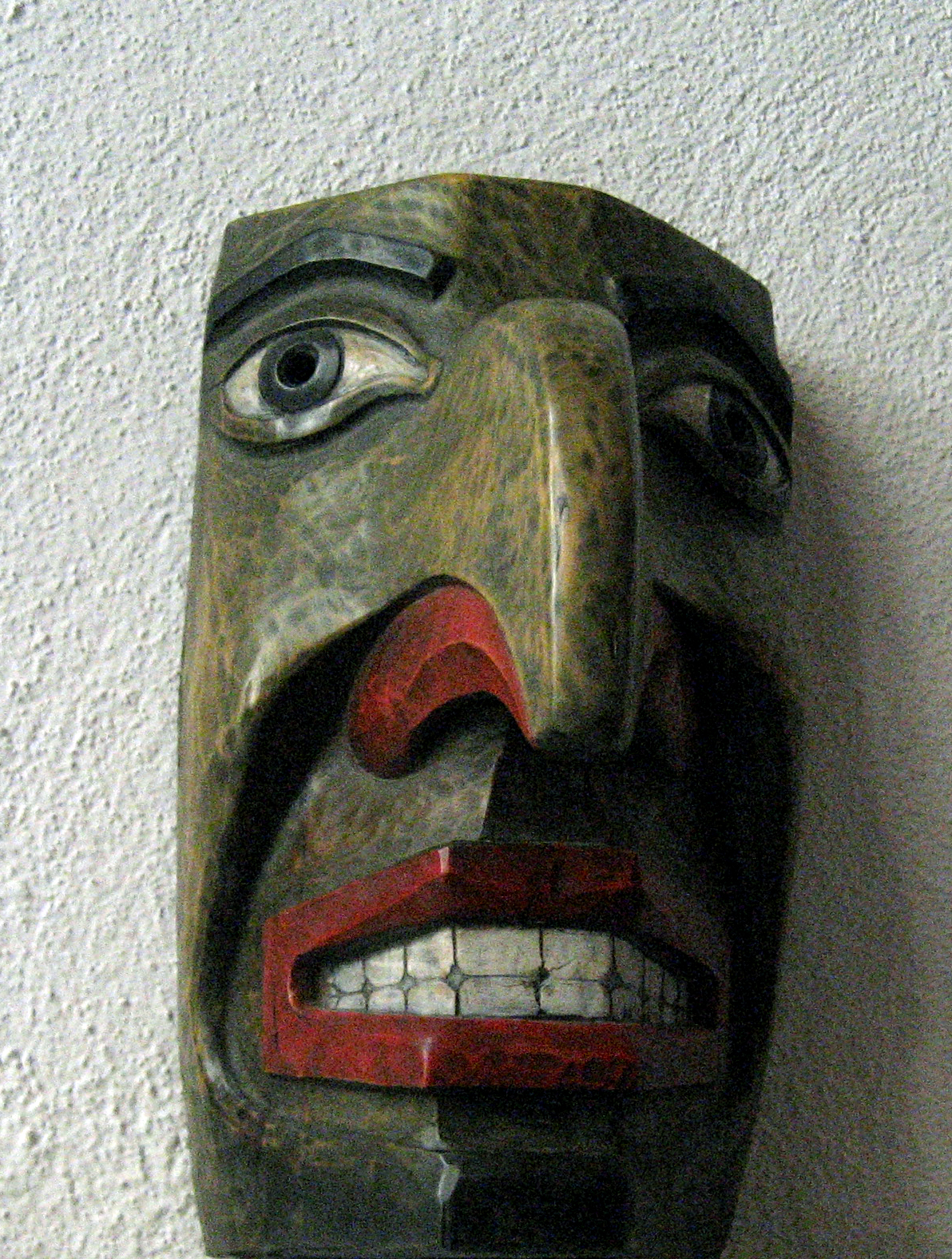 Masks of sculptor Juan María Medina Ayllón